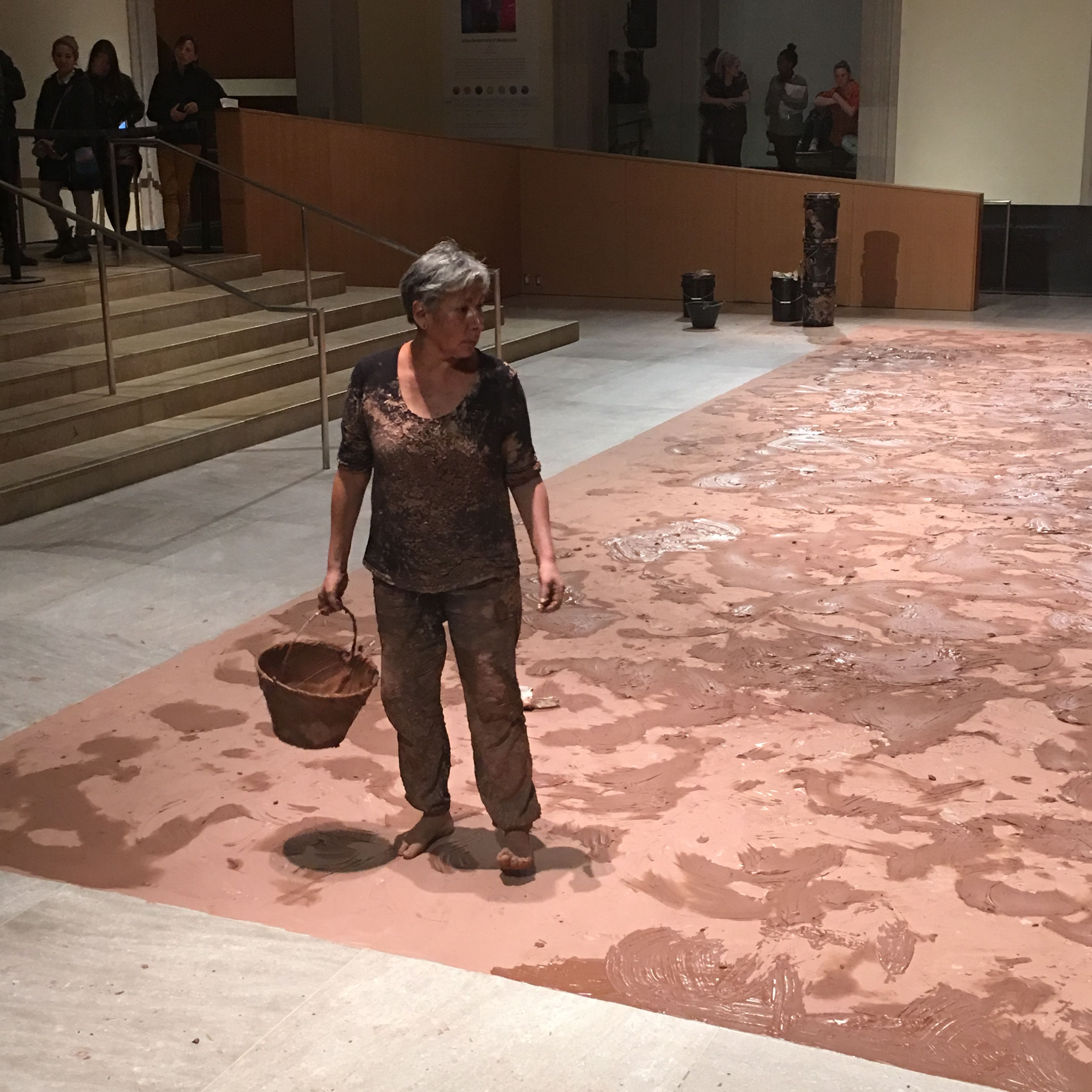 Rebecca Belmore at her performance art piece for Nuit Blanche 2016 at the Art Gallery of Ontario